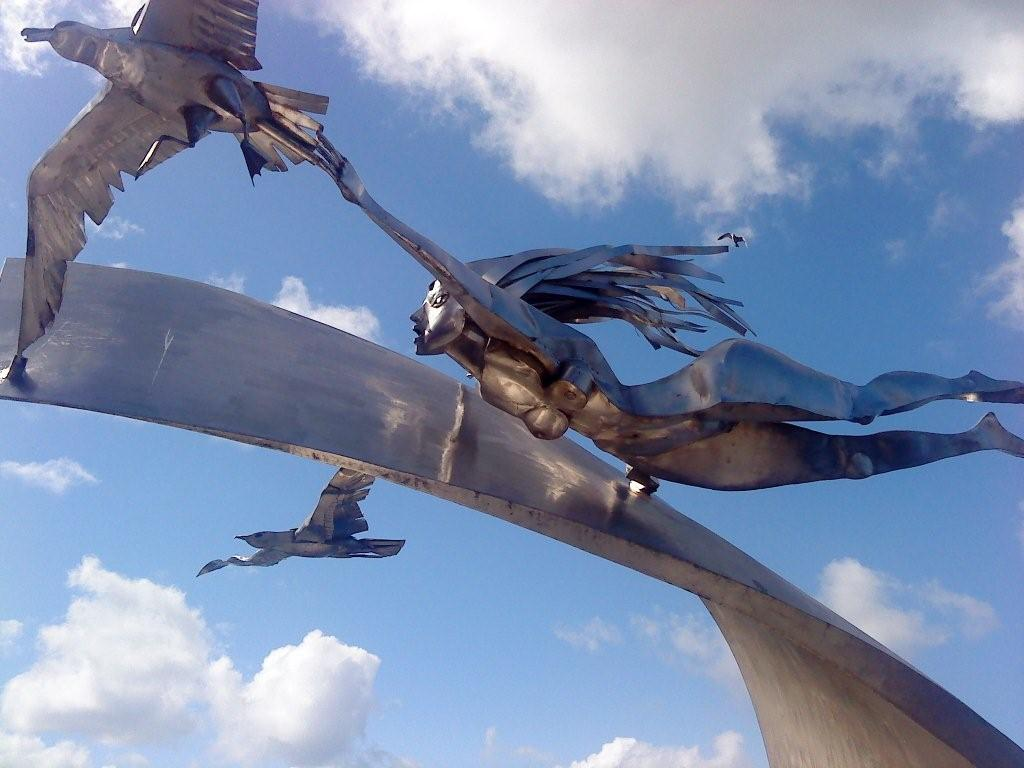 Work of art by sculptor Jørleif Uthaug (1911-90): Amfitrite, bølgen og havfuglene (Amphitrite, the wave and the sea birds) (1985) in Porsgrunn, Norway